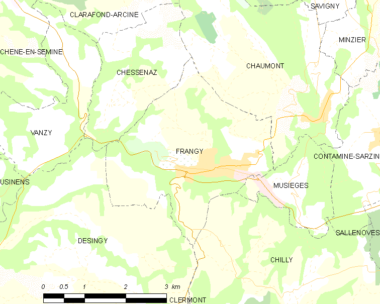 Map of French municipality Frangy